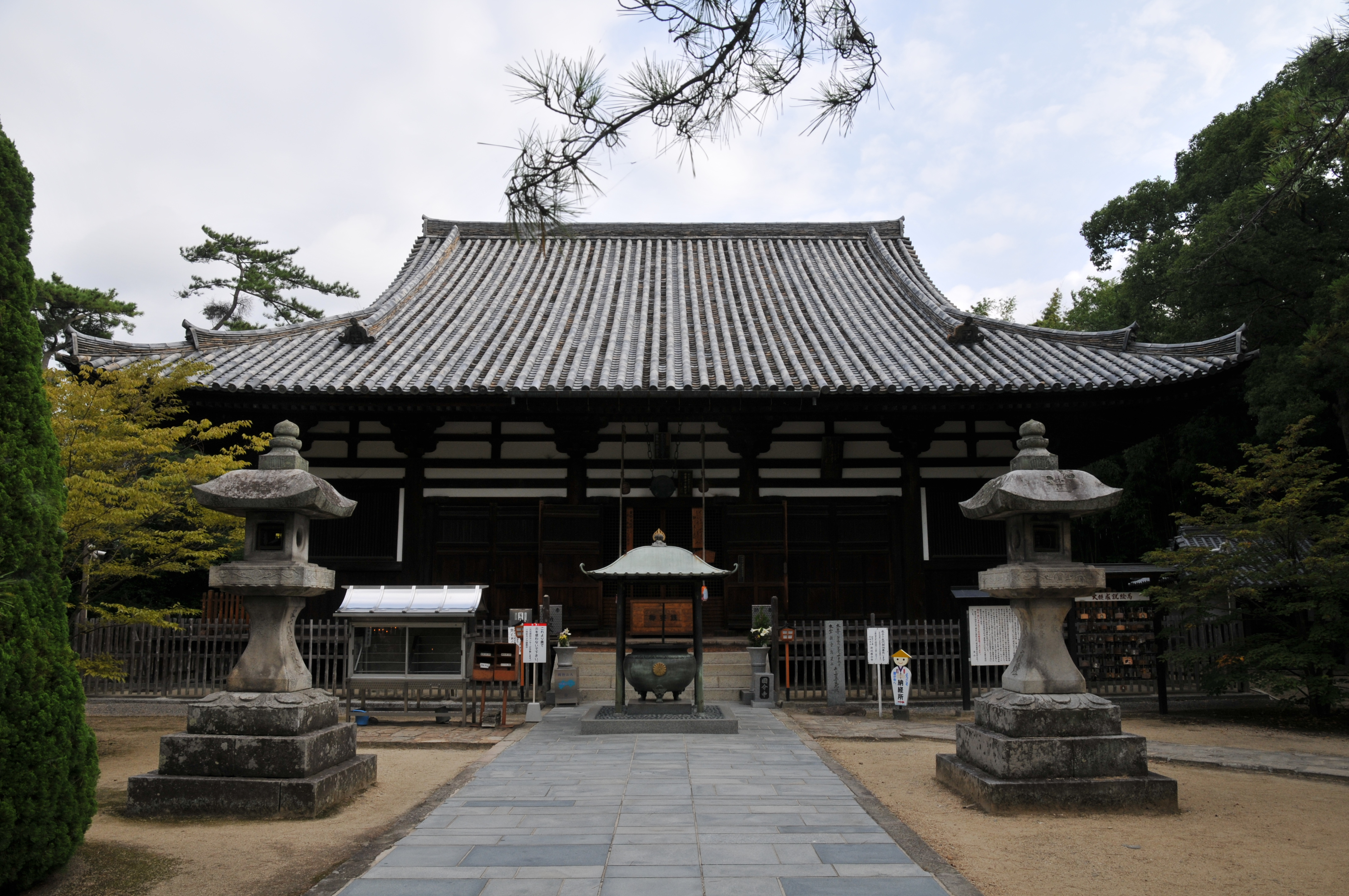 Hondō (Main hall, Japan's national important cultural property), Kokubun-ji, Kagawa Pref., Japan